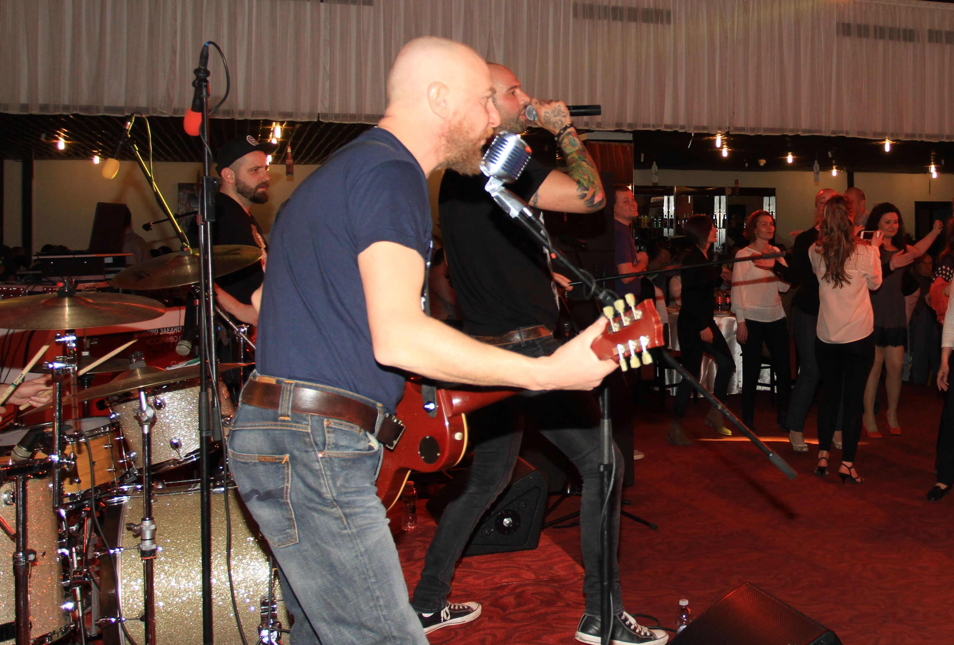 D2 - Bulgarian music group formed in 1999 by Dimitar Karnev (guitar) and Dicho Hristov (vocals). The other members of the band are Krasimir Todorov (keyboards), Alexander Obretenov (bass guitar), Yavor Alexandrov (drums) and Desislav Semerdzhiev (percussion).